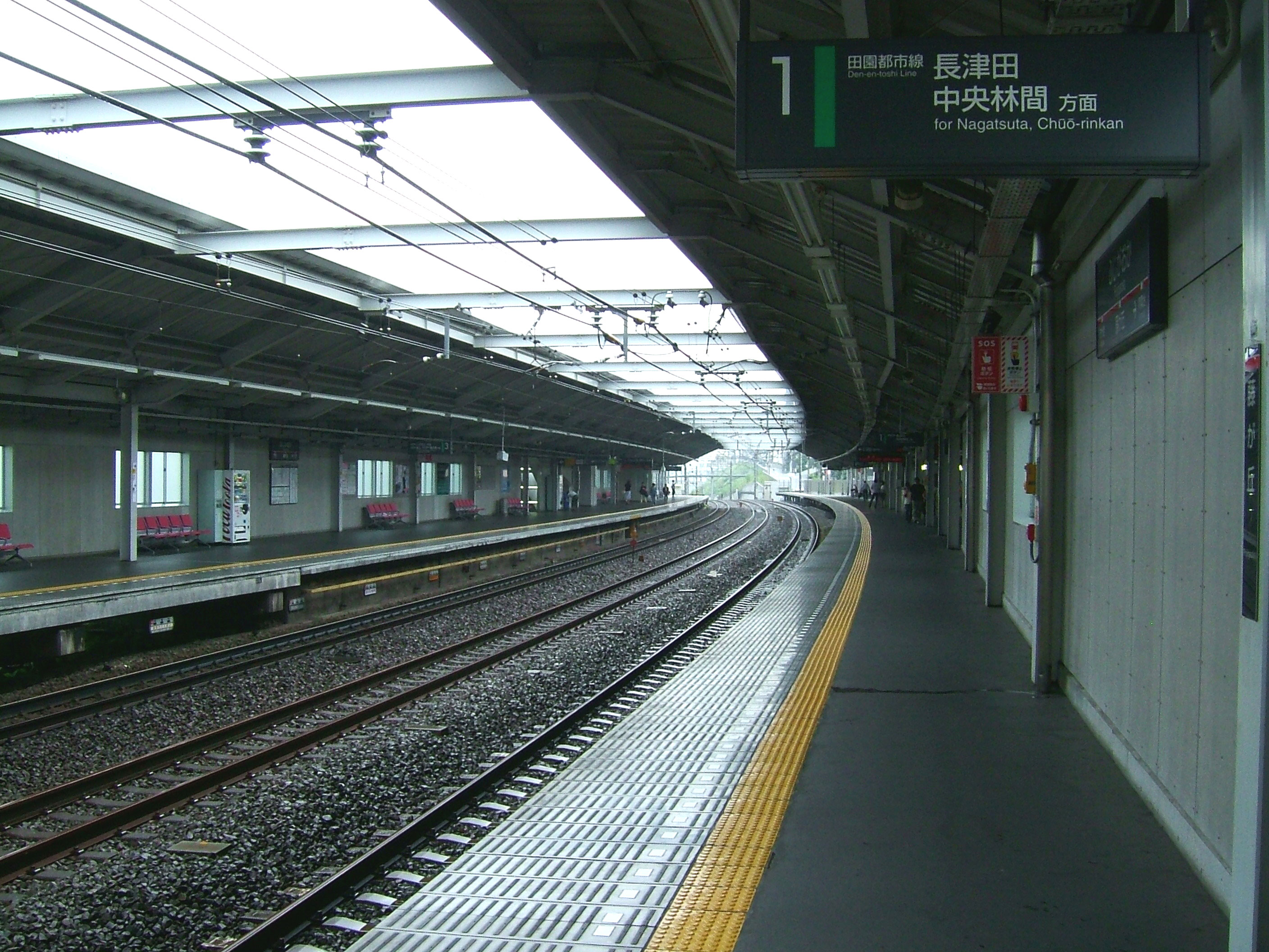 Fujigaoka Station platform (Tōkyū Den-en-toshi Line)